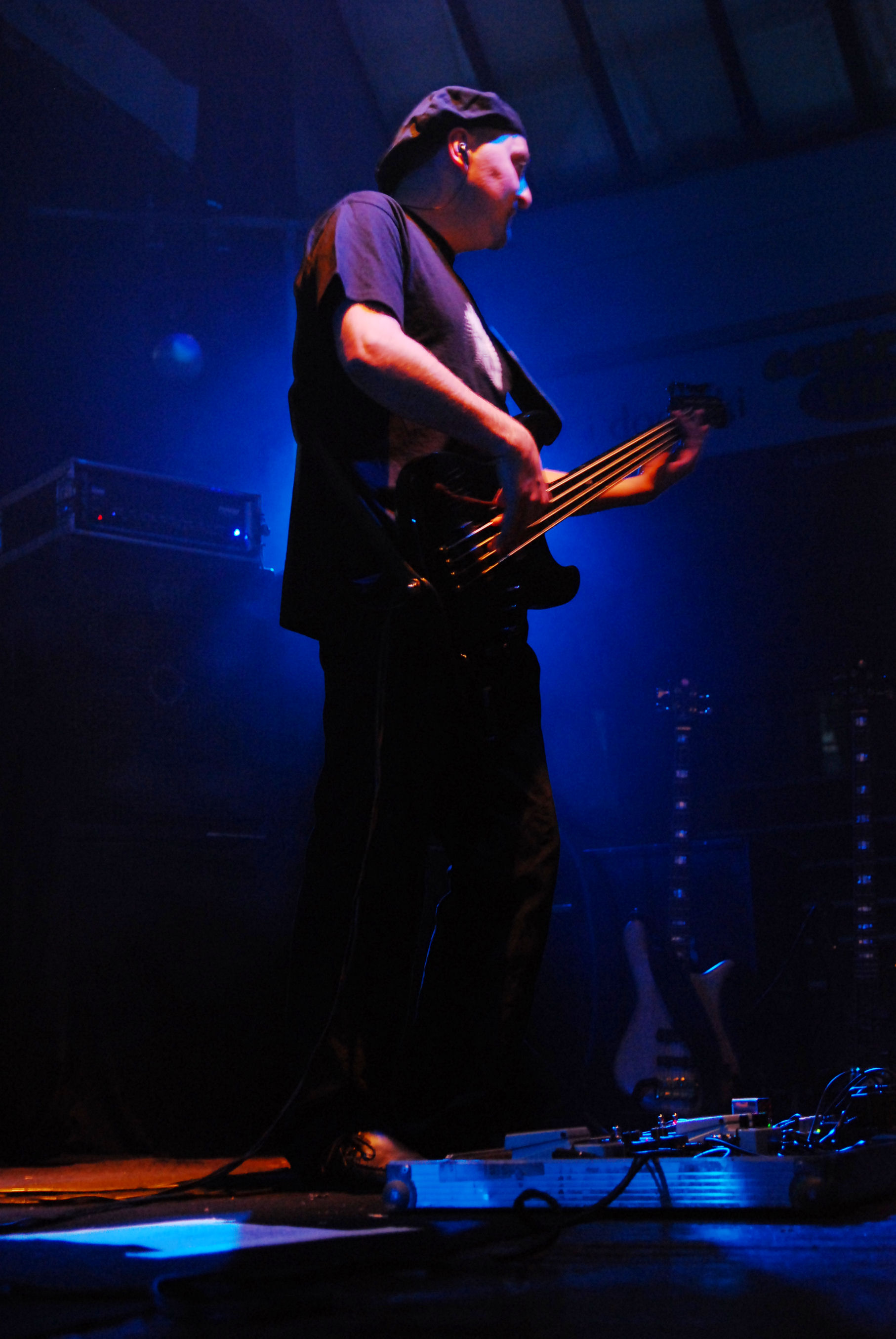 COLIN EDWIN from Porcupine Tree during concert in TS Wisła in Kraków To zdjęcie powstało dzięki współpracy z Rock-Servis